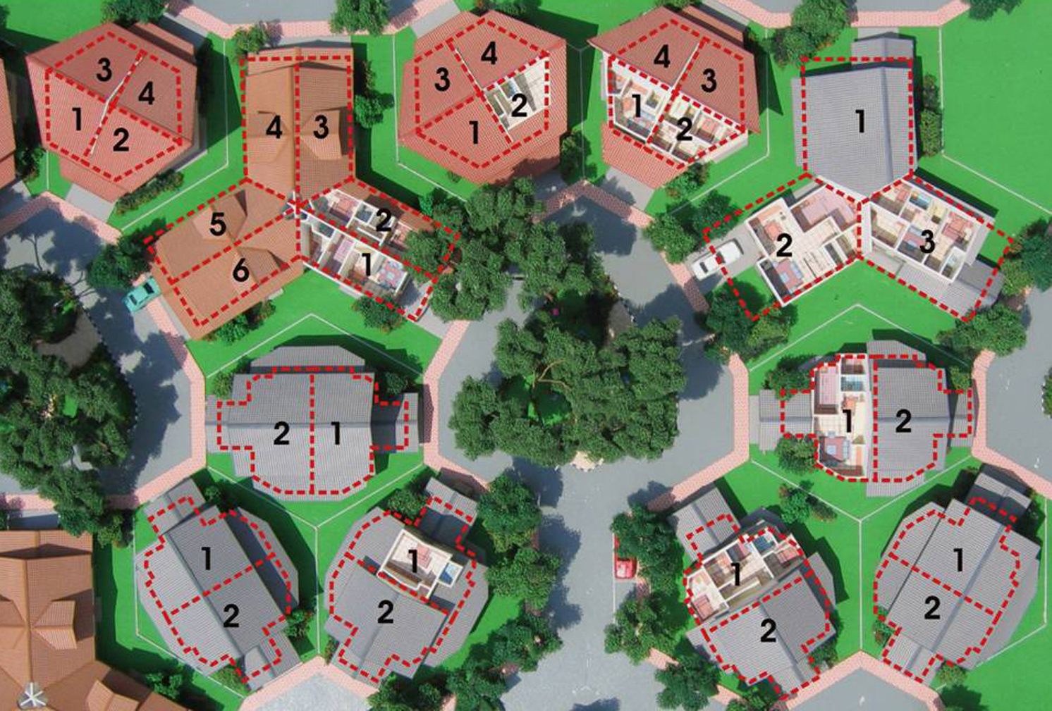 An illustration explaining how the Honeycomb layout is derived from a cul-de-sac layout form